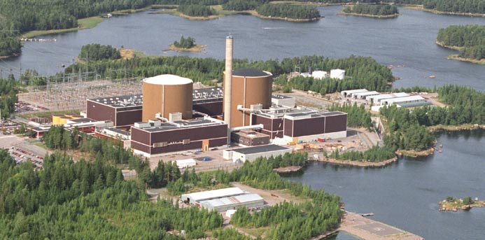 Loviisa nuclear power plant from air. The plant consists of two Soviet-designed VVER440 reactors equipped with Western control and safety systems.